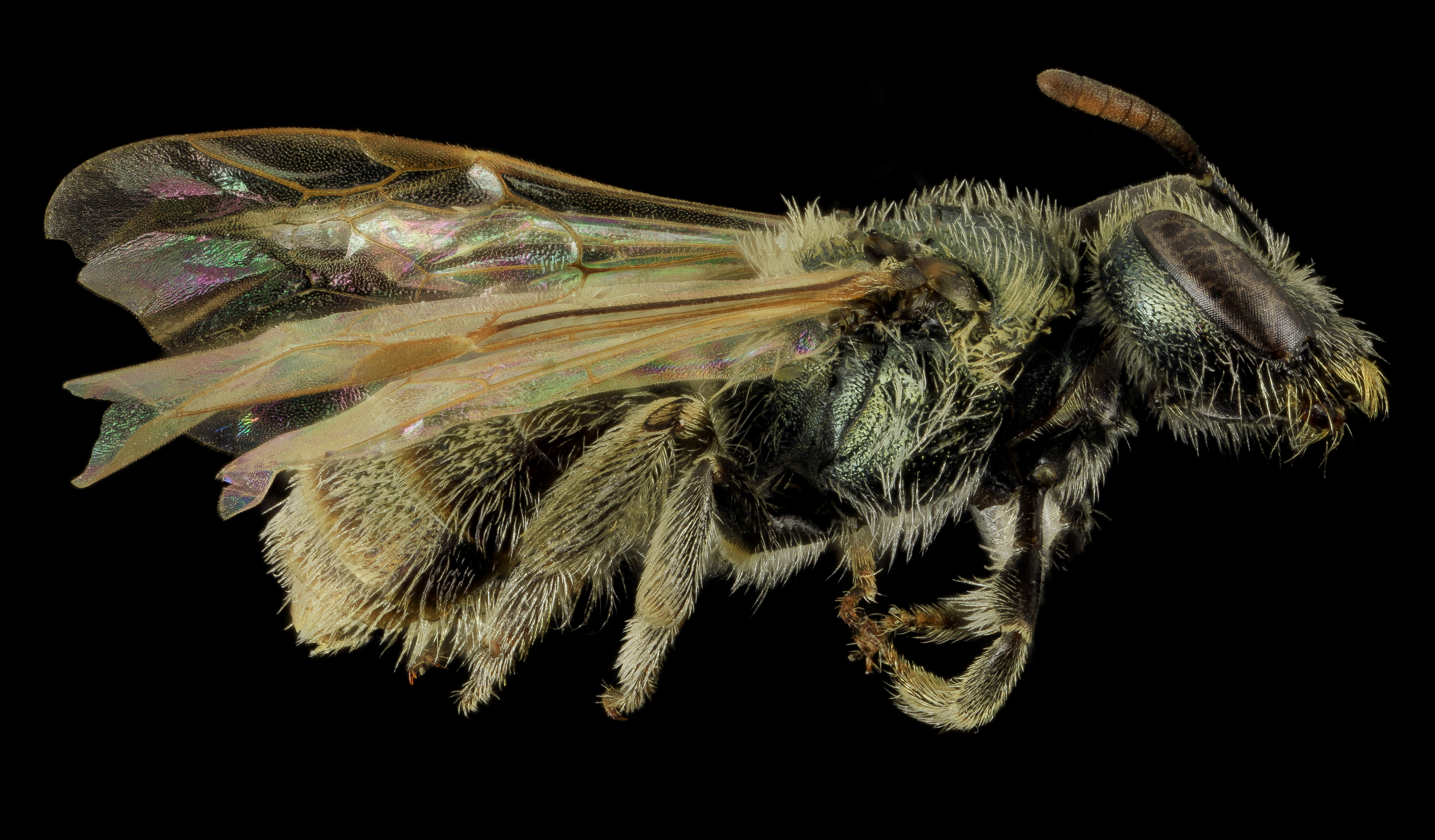 The glorious species richness and subtle complexity of a group of sweat bees. Lasioglossum abundipunctum (pictured here and collected in Fossil Butte, Wyoming) is one of what seems like an endless number of similar seeming bees. I have little doubt that on a per bee basis this group of bees dominates all other native bees, but to we ever really hear about them? Nope. To small, to "boring" . How can we be ignoring a set of bees that in almost certainly produces over A TRILLION individuals north of Mexico each year. Photos by Dejen Mengis. Photography Information: Canon Mark II 5D, Zerene Stacker, Stackshot Sled, 65mm Canon MP-E 1-5X macro lens, Twin Macro Flash in Styrofoam Cooler, F5.0, ISO 100, Shutter Speed 200